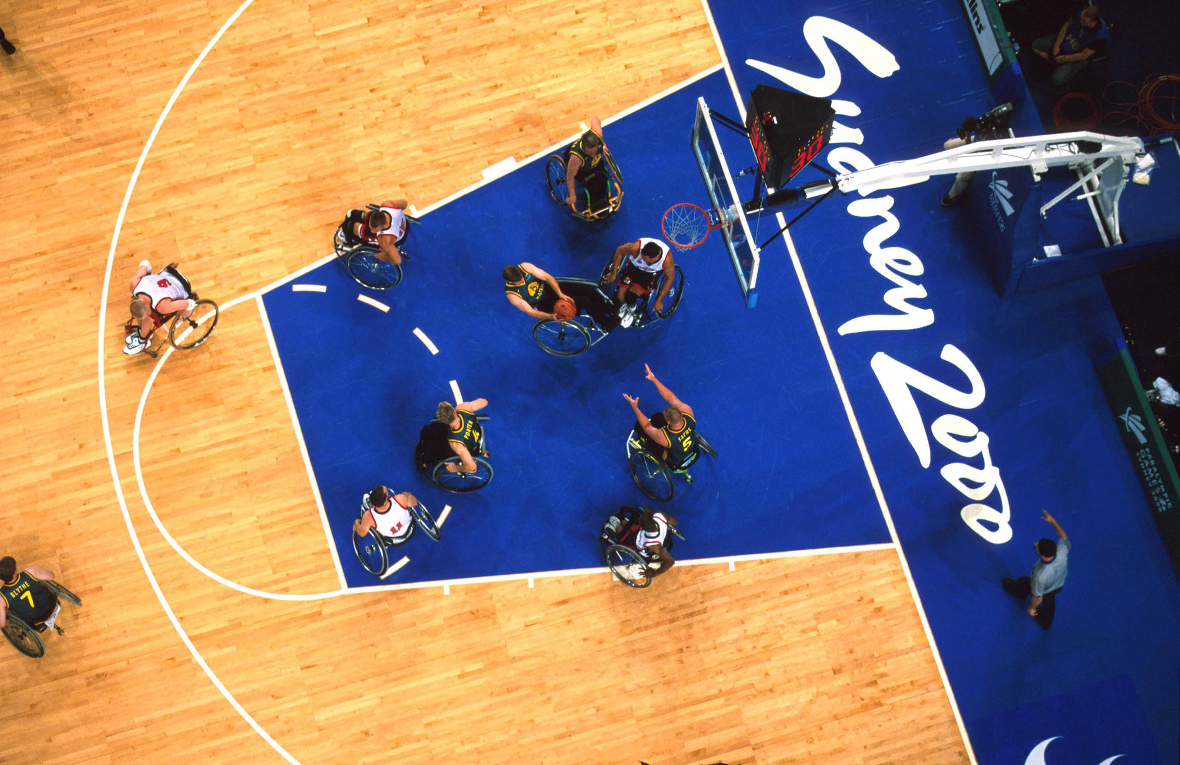 Australian men's wheelchair basketball team from above during 2000 Sydney Paralympic Games match